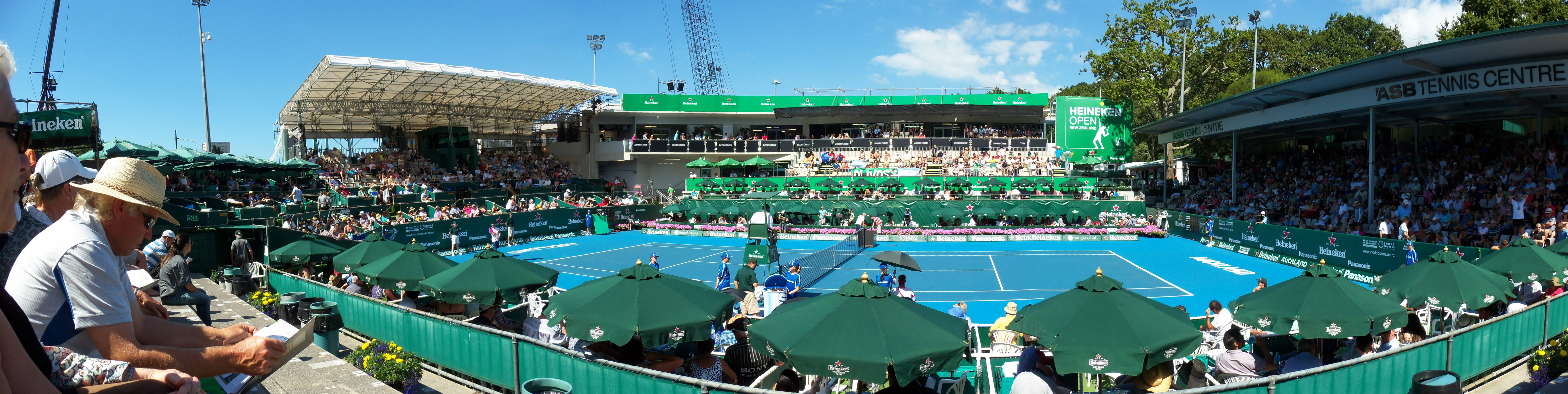 A Panorama of the ASB Tennis Centre during afternoon play at the Heineken Open